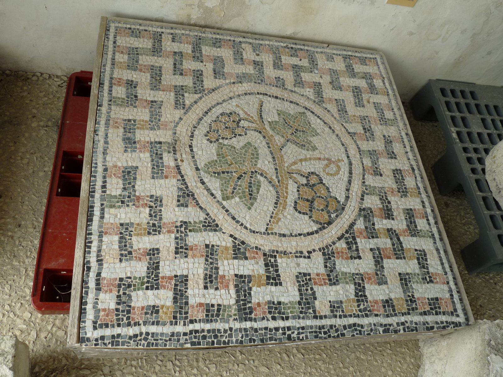 Ruins of a Gallo-roman city at Barzan (Novioregum?), Charente-Maritime, SW France. Mosaic.